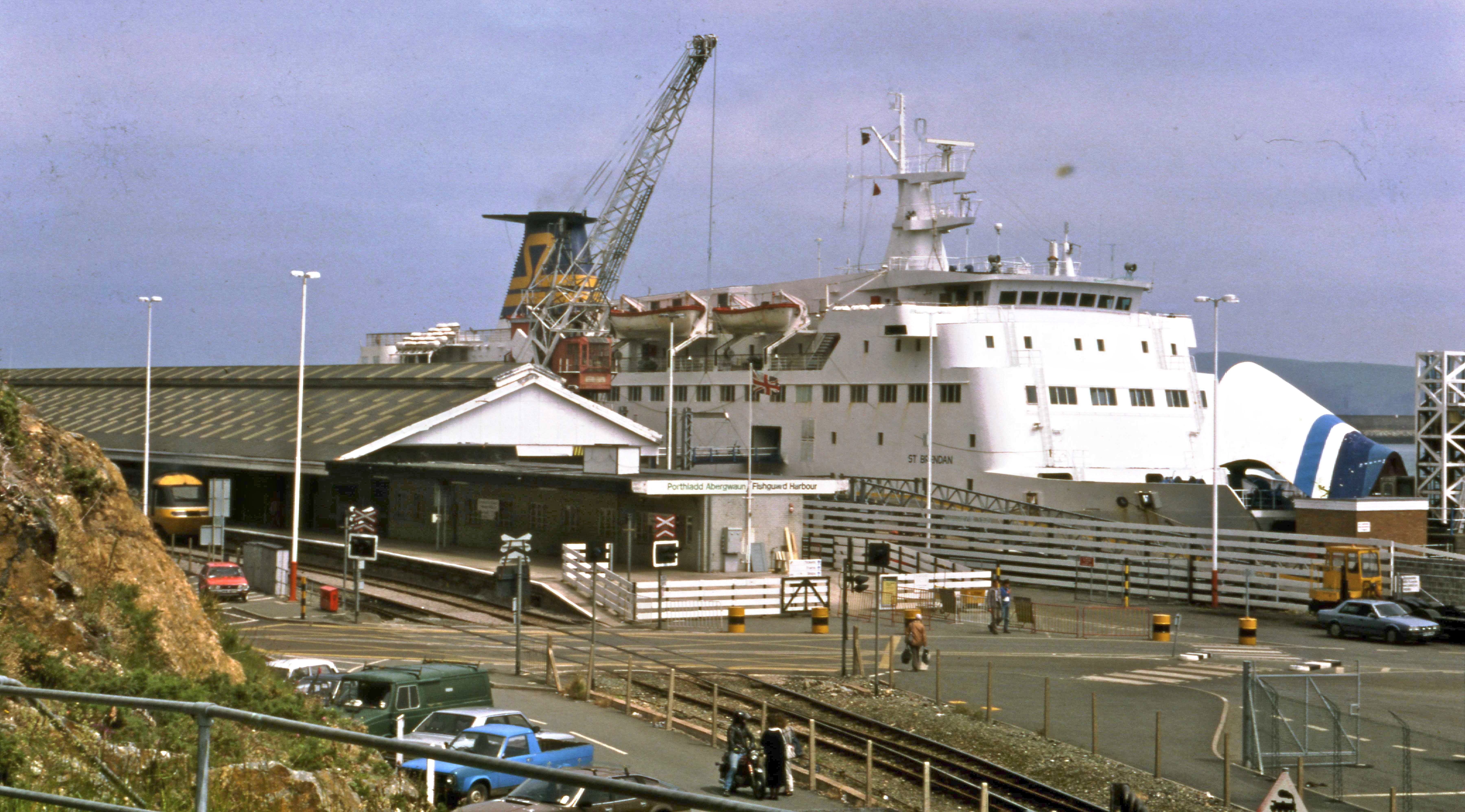 July 1988 - see for more details of St Brendan